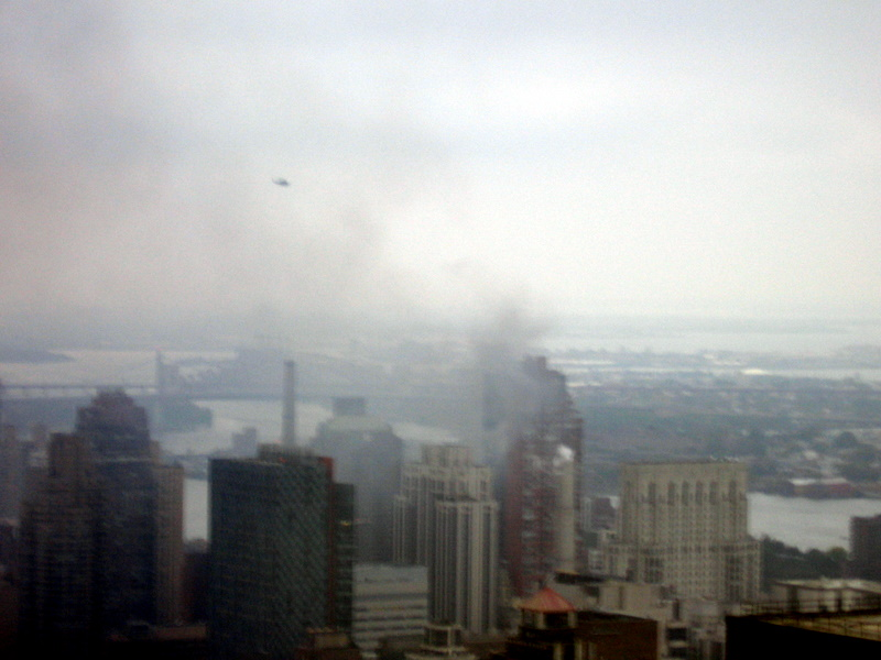 Photo from the 10-11-2006 place crash in New York. Original description: The view from my office window (at 53rd/Lex) - a small plane just crashed into a building at E. 72nd and York Avenue in Manhattan.